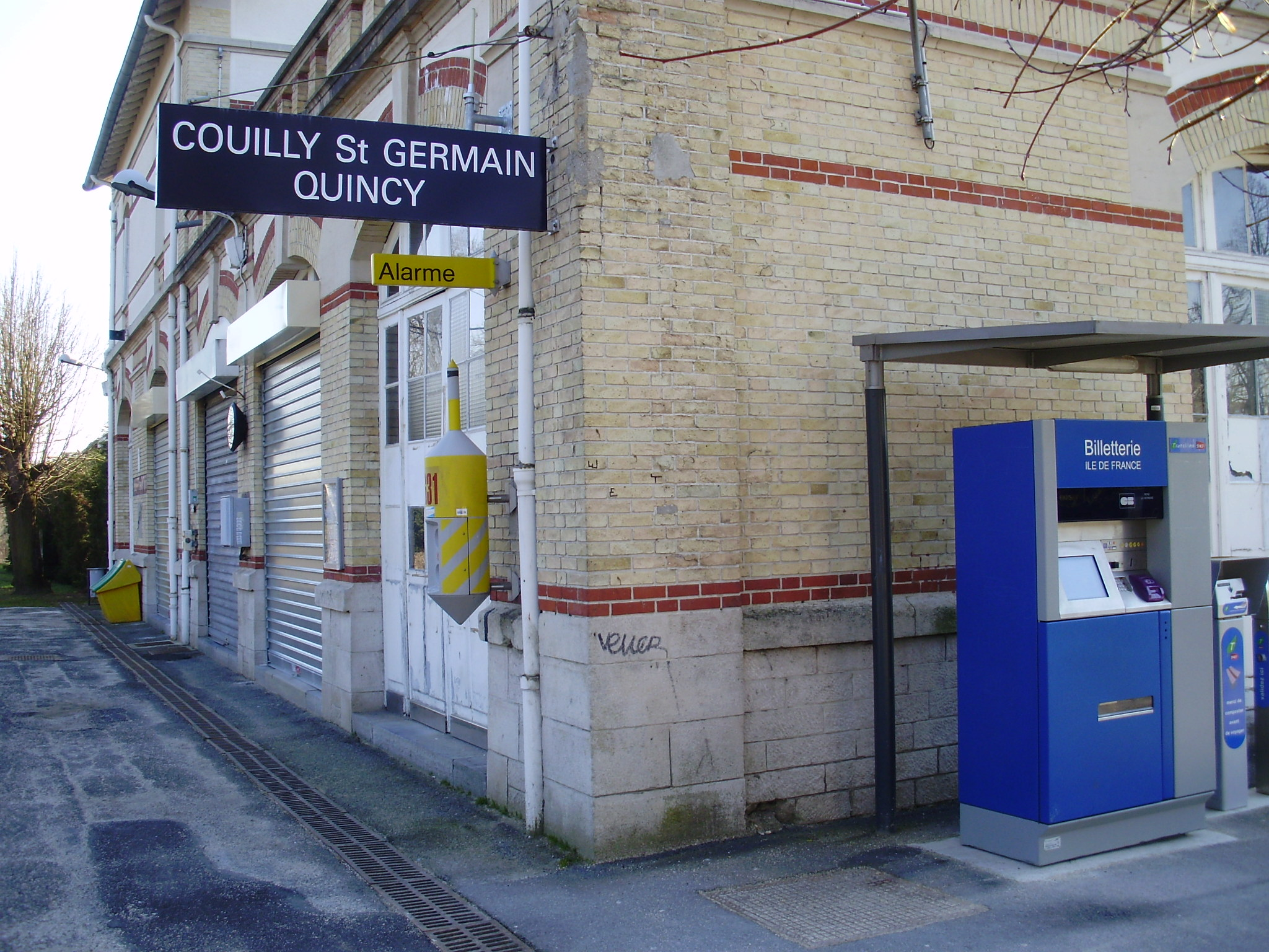 Couilly - Saint-Germain - Quincy station, panel and tickets machine, Seine-et-Marne, France